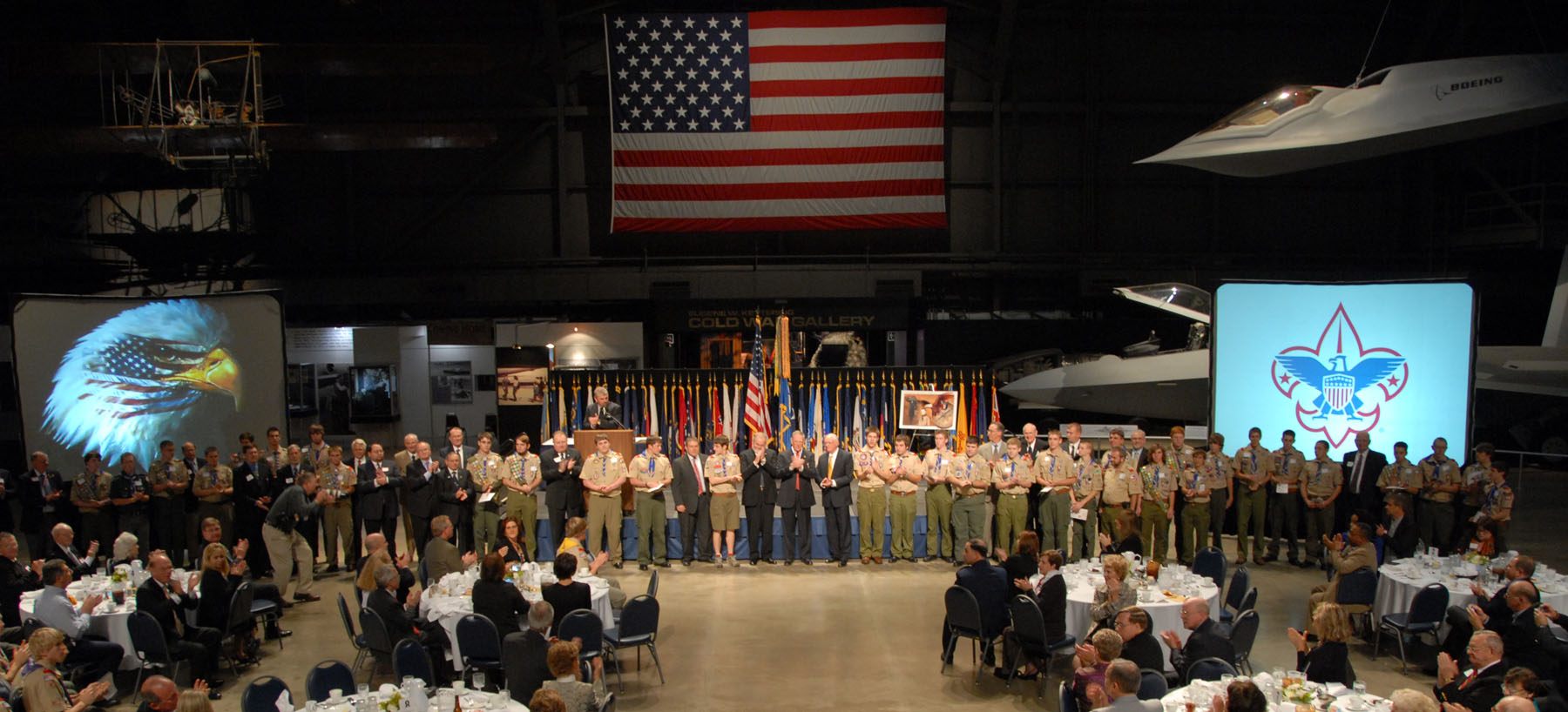 caption: "DAYTON, Ohio (10/27/2009) -- Maj. Gen. (Ret.) Charles D. Metcalf poses with other Eagle Scouts following his receipt of the Distinguished Eagle Scout Award at the National Museum of the U.S. Air Force. (U.S. Air Force photo)"